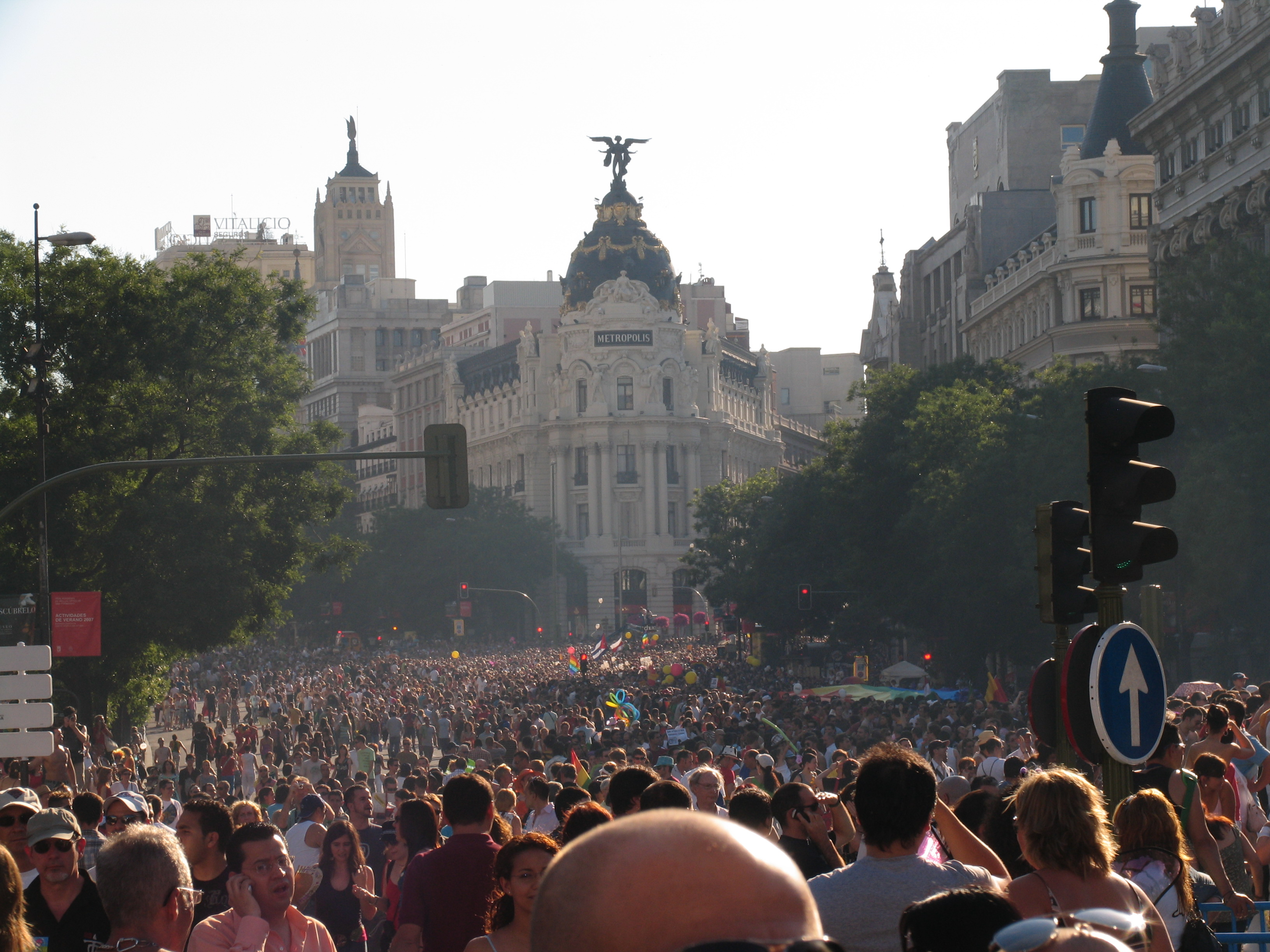 View of the European Pride parade (Europride) 2007 in Madrid, on Calle de Alcalá to the height of the Plaza de la Cibeles